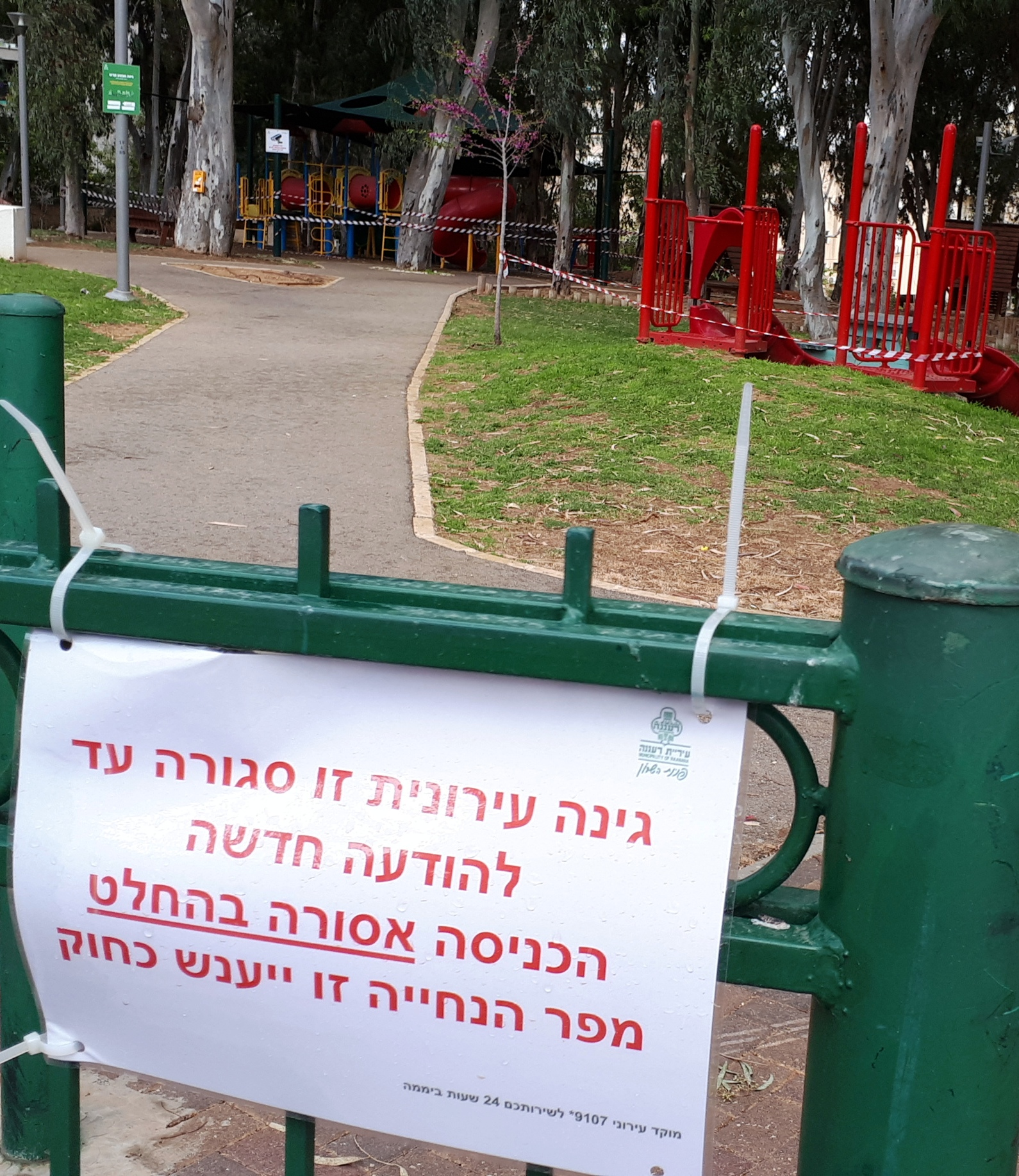 Mivtsa Kadesh Garden, Ranana, March 2020 - Closed due to COVID-19 pandemic